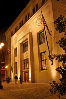 Night shot of Federal Reserve Bank of St. Louis building